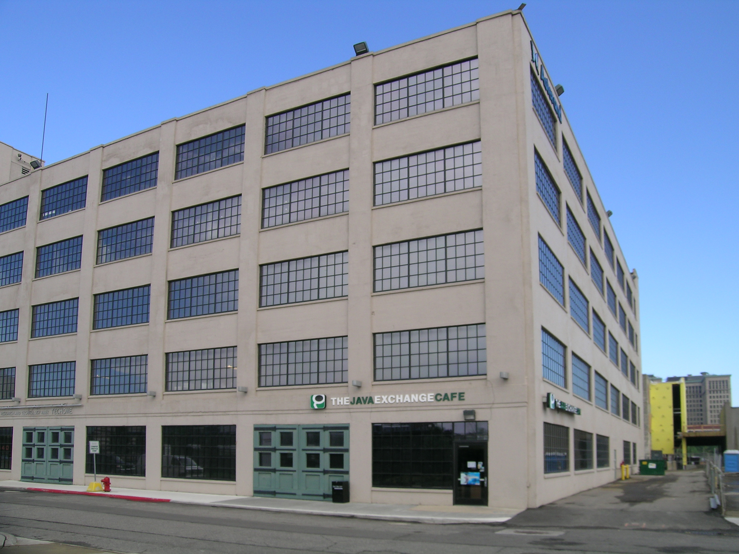 TechTown is a business incubator in Detroit, Michigan, United States. TechOne, at 440 Burroughs Street, shown here, is the first building of TechTown. It was renovated from the historic G. A. Richards Oakland Company Service Department, which lies within the New Amsterdam Historic District.